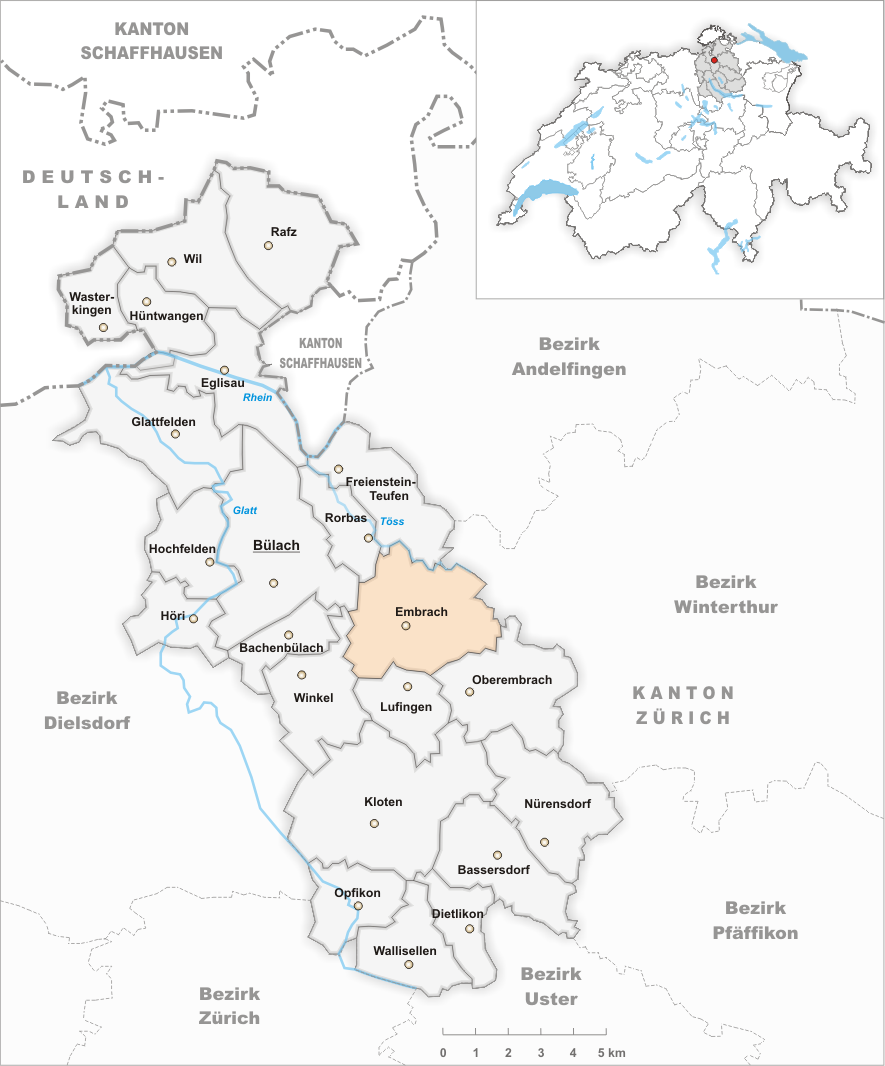 Municipality Embrach